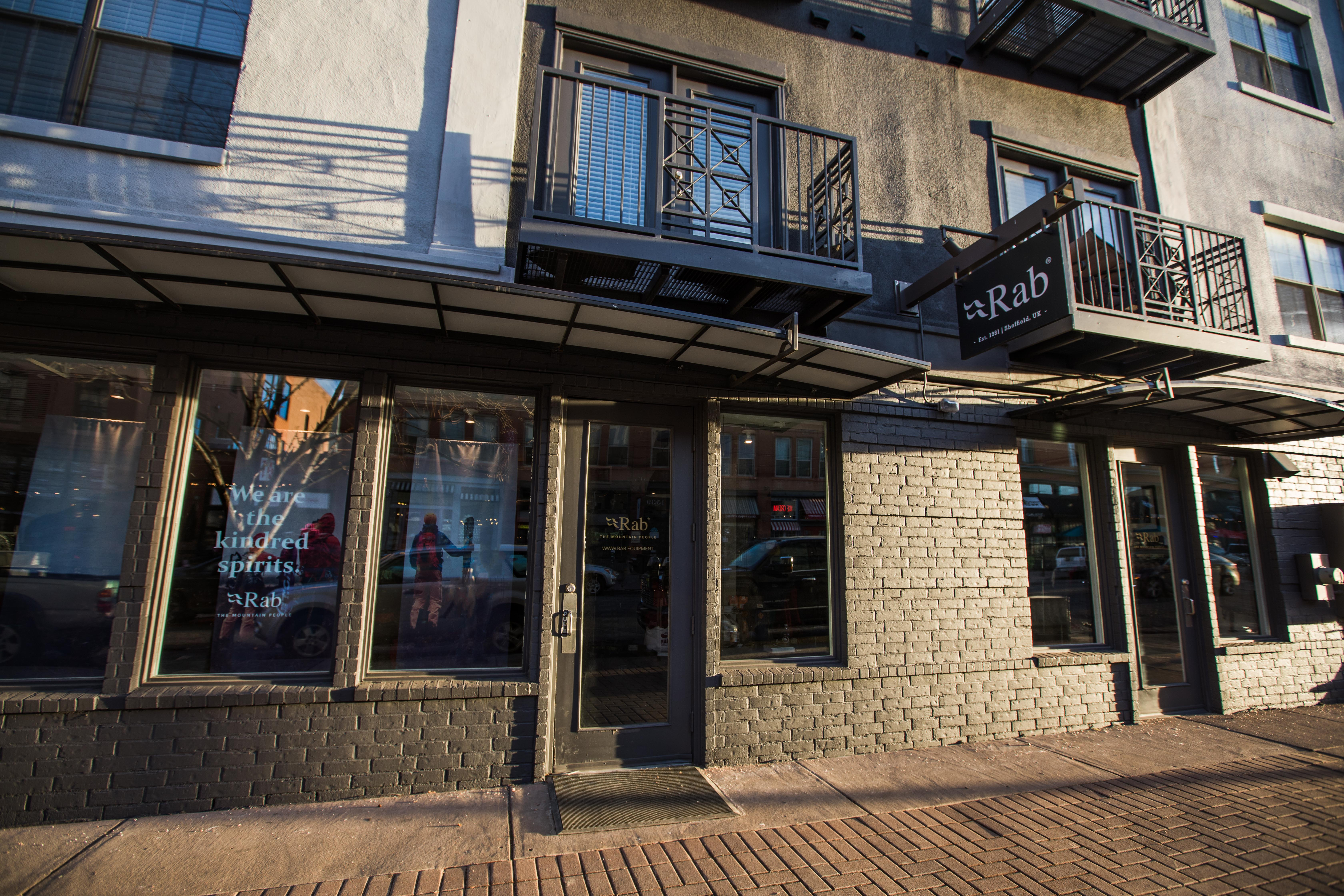 Front of Rab clothing's store on Platte Street, Denver, 2018.